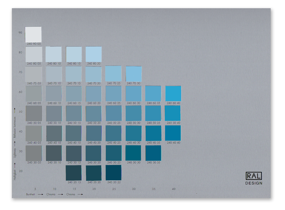 RAL DESIGN atlas page (ed. 2007)